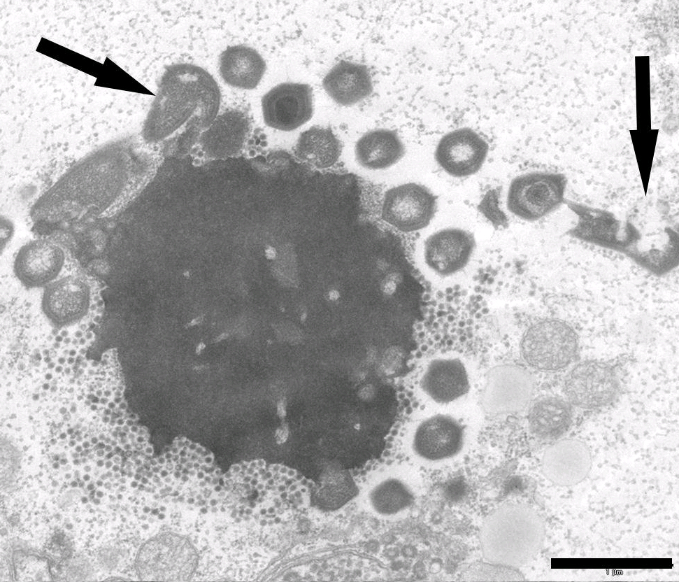 Virus factory in amoeba co-infected with Zamilon and Mont1, showing abnormal Mont1 particles (arrows) (scale bar 0.1 µm)